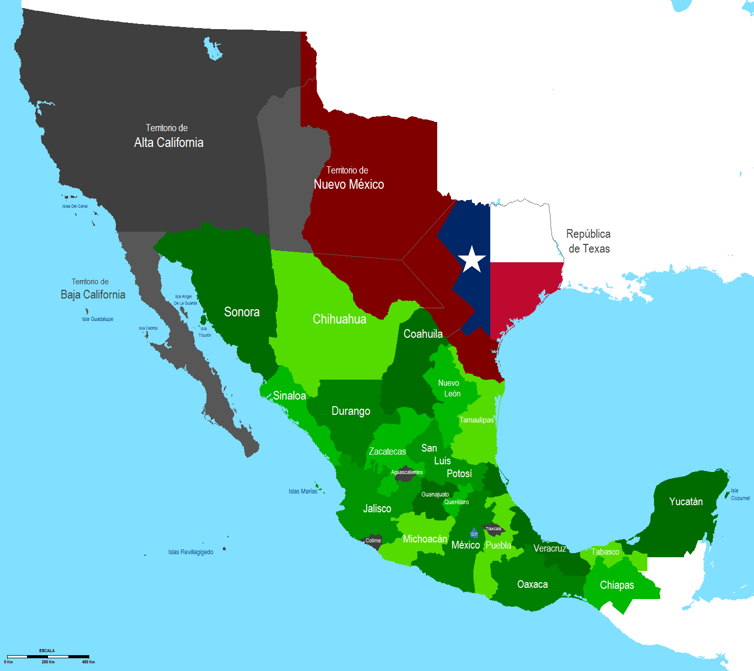 Map of Mexico 1838